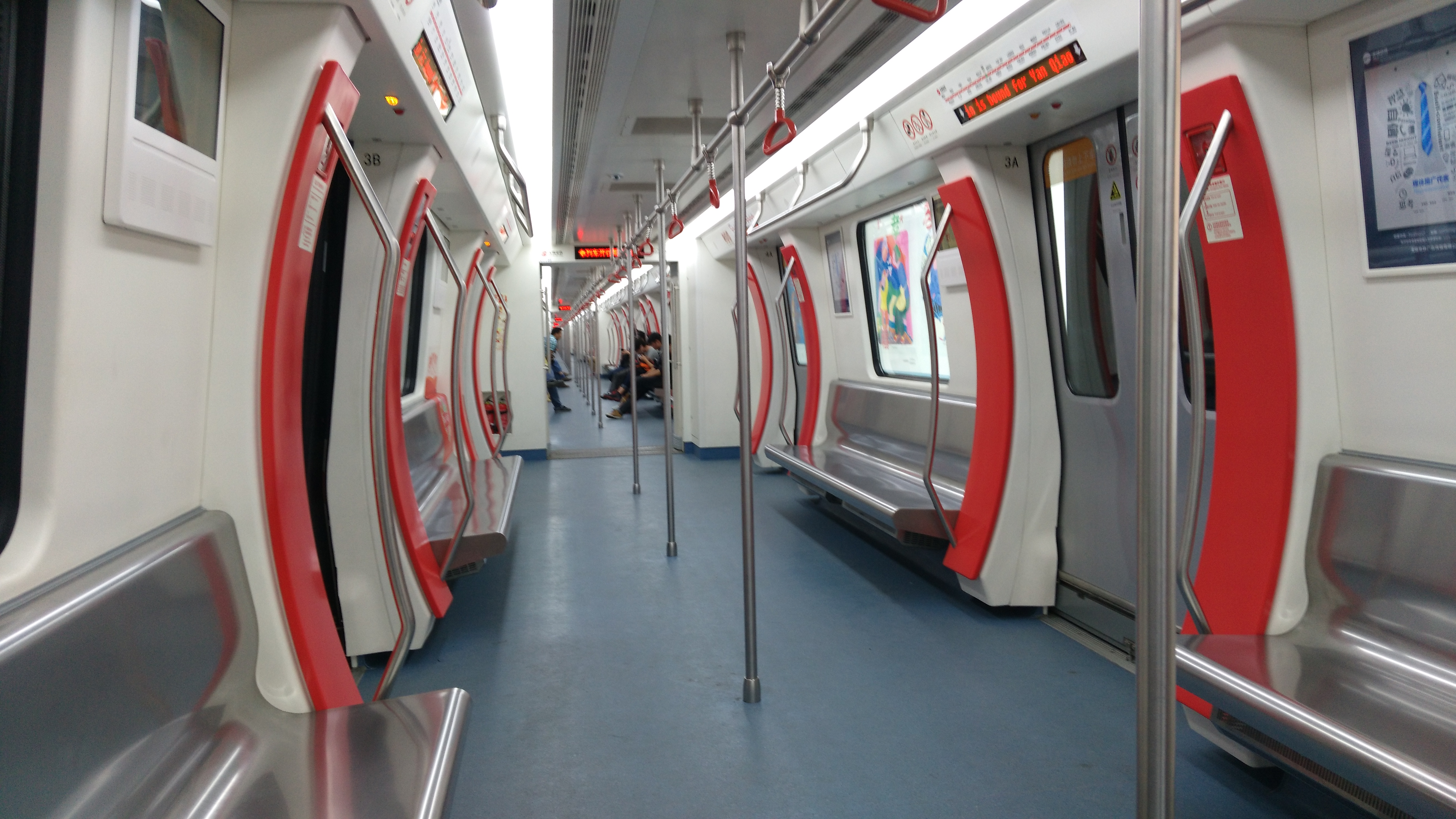 wuxi metro line 1